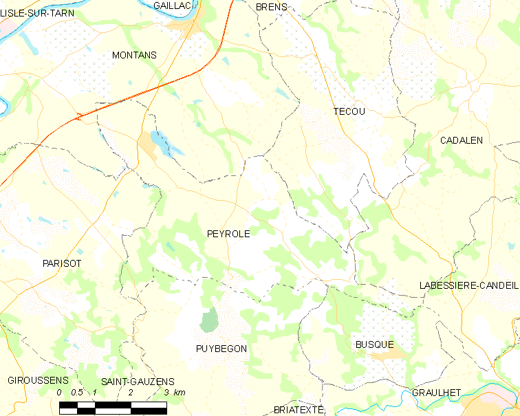 Map of French municipality Peyrole